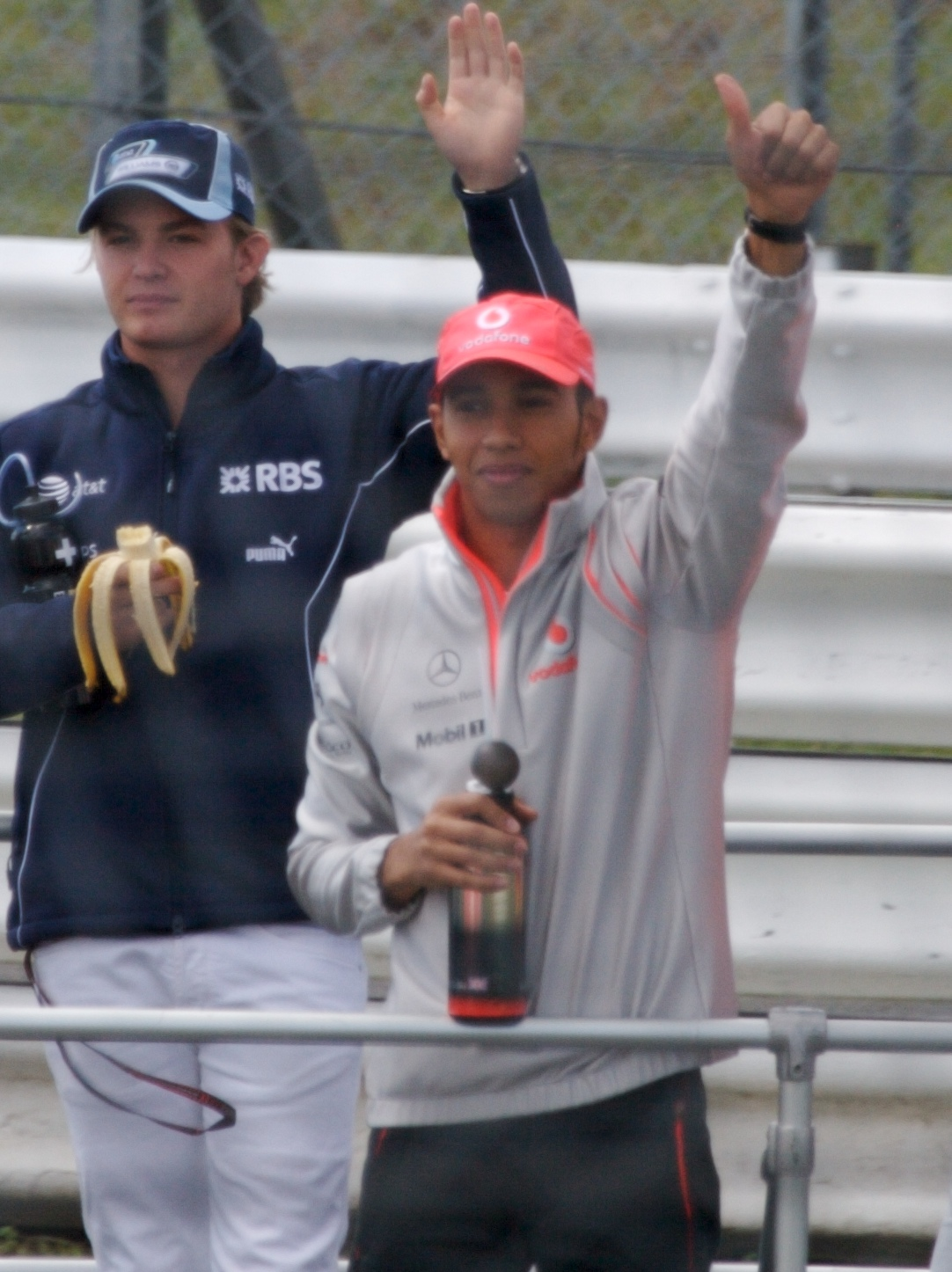 Lewis Hamilton and Nico Rosberg taking part in the drivers' parade before the 2007 British Grand Prix.